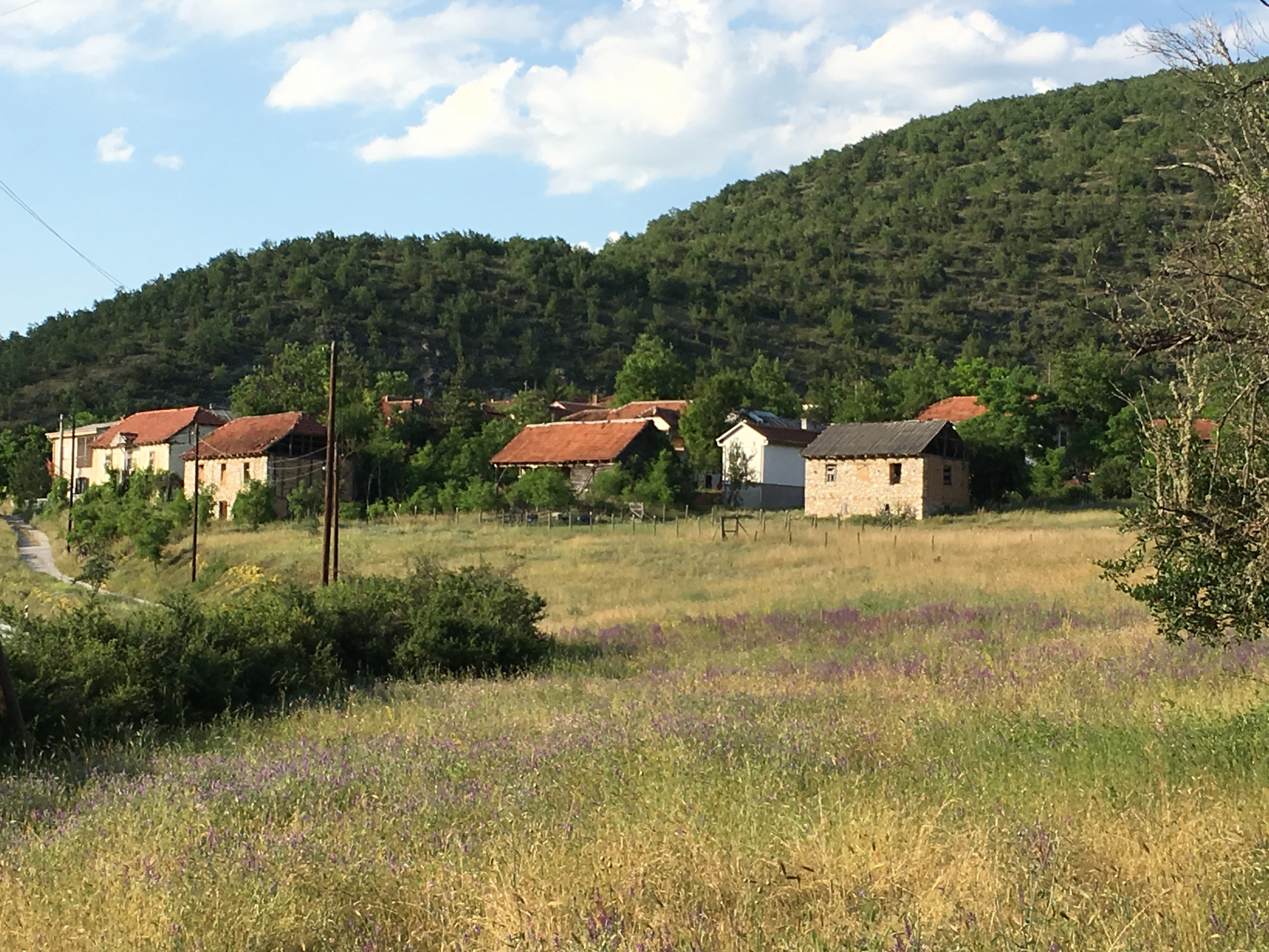 View of the village of Dragov Dol